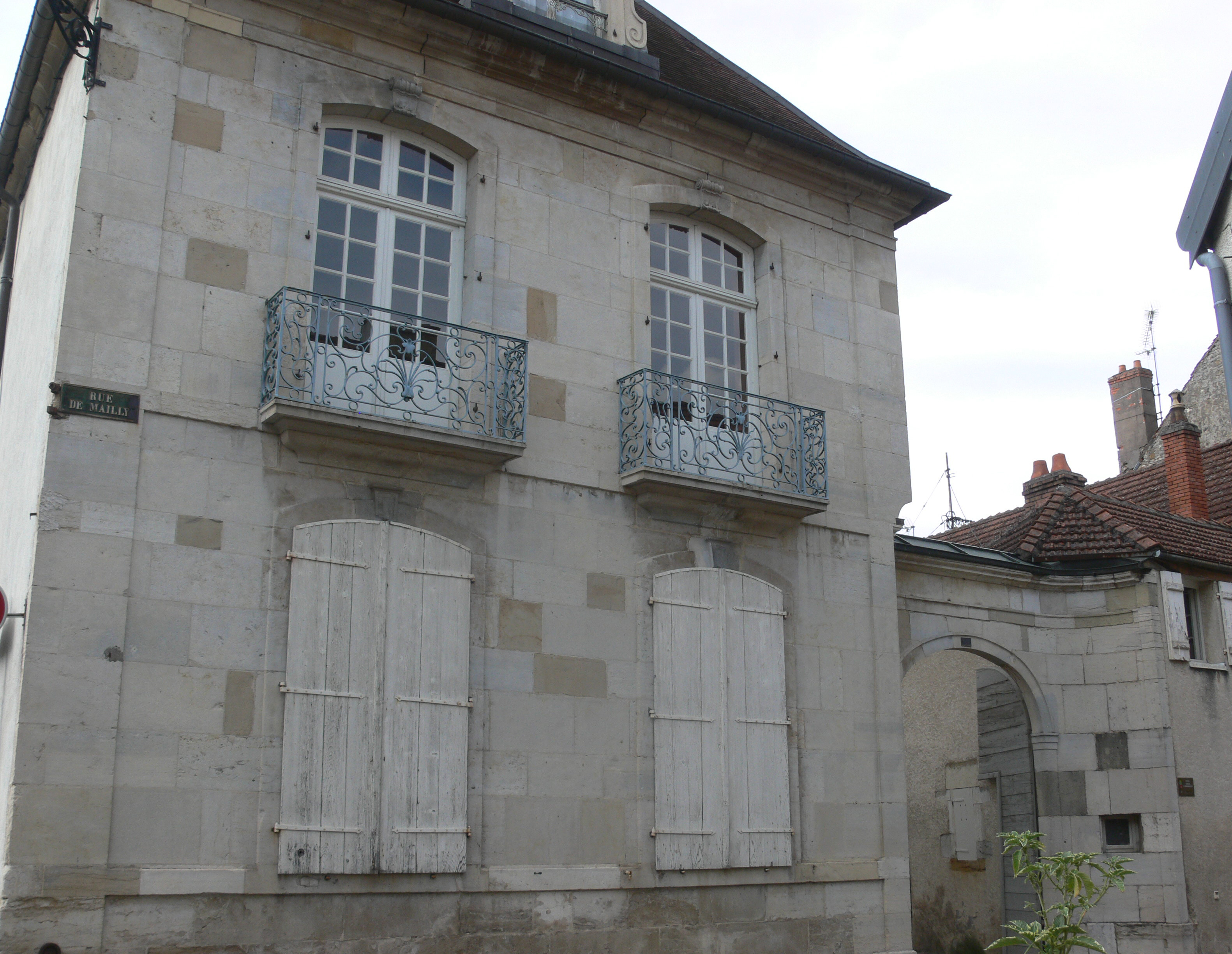 hôtel de Magnoncourt (Vesoul, Haute-Saône)